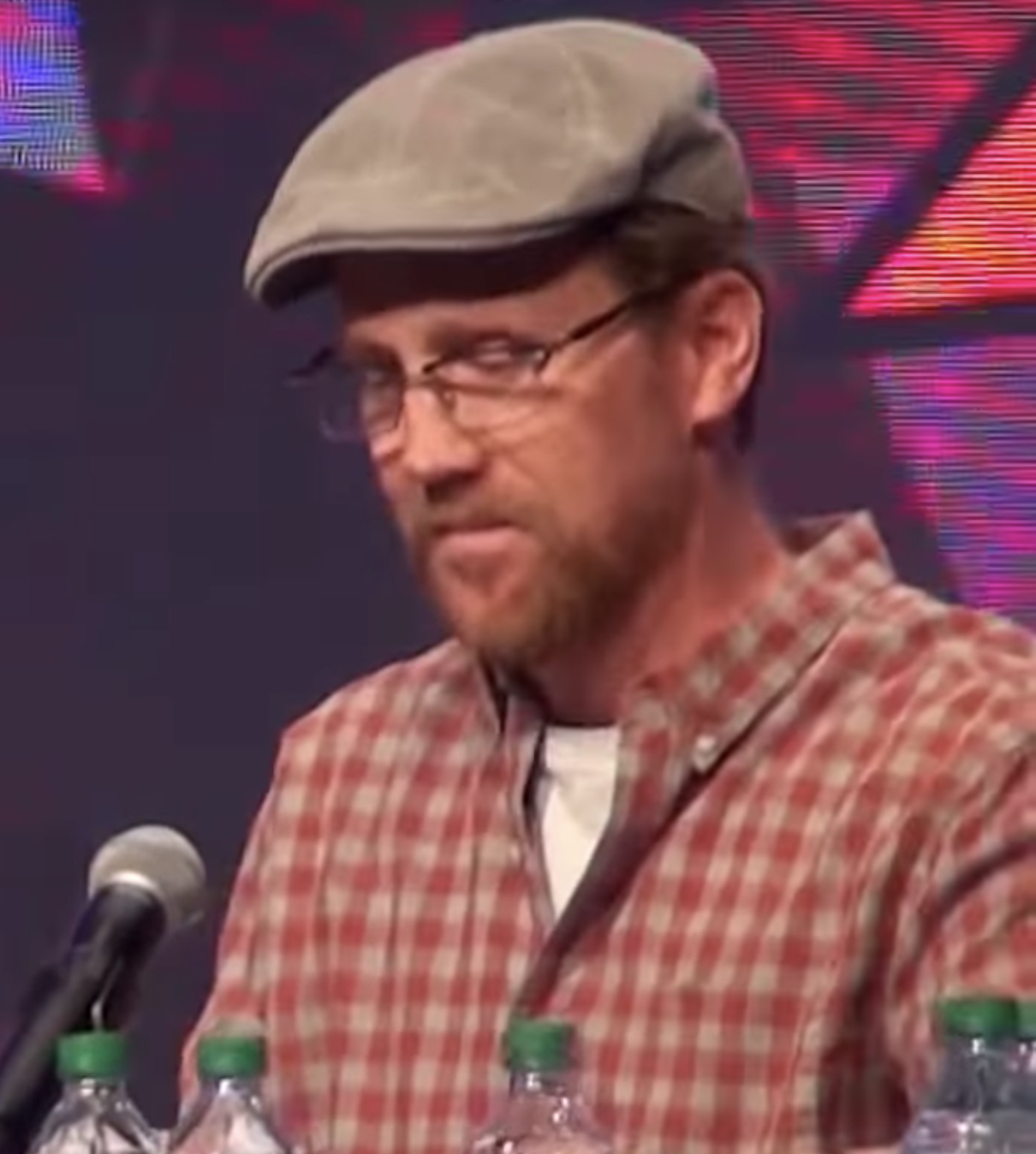 Jeff Bennett speaking at the 2017 SLCC FanX Twisted Toonz Panel